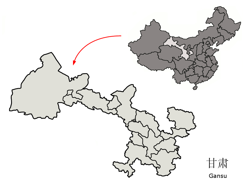 County-level subdivisions in Gansu province of China Map drawn in september 2007 using various sources, mainly : Gansu province administrative regions GIS data: 1:1M, County level, 1990 Gansu Counties map from